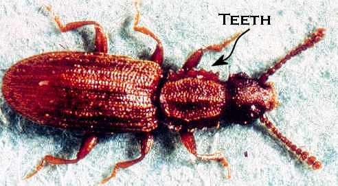 Oryzaephilus surinamensis, taken by andy brookes